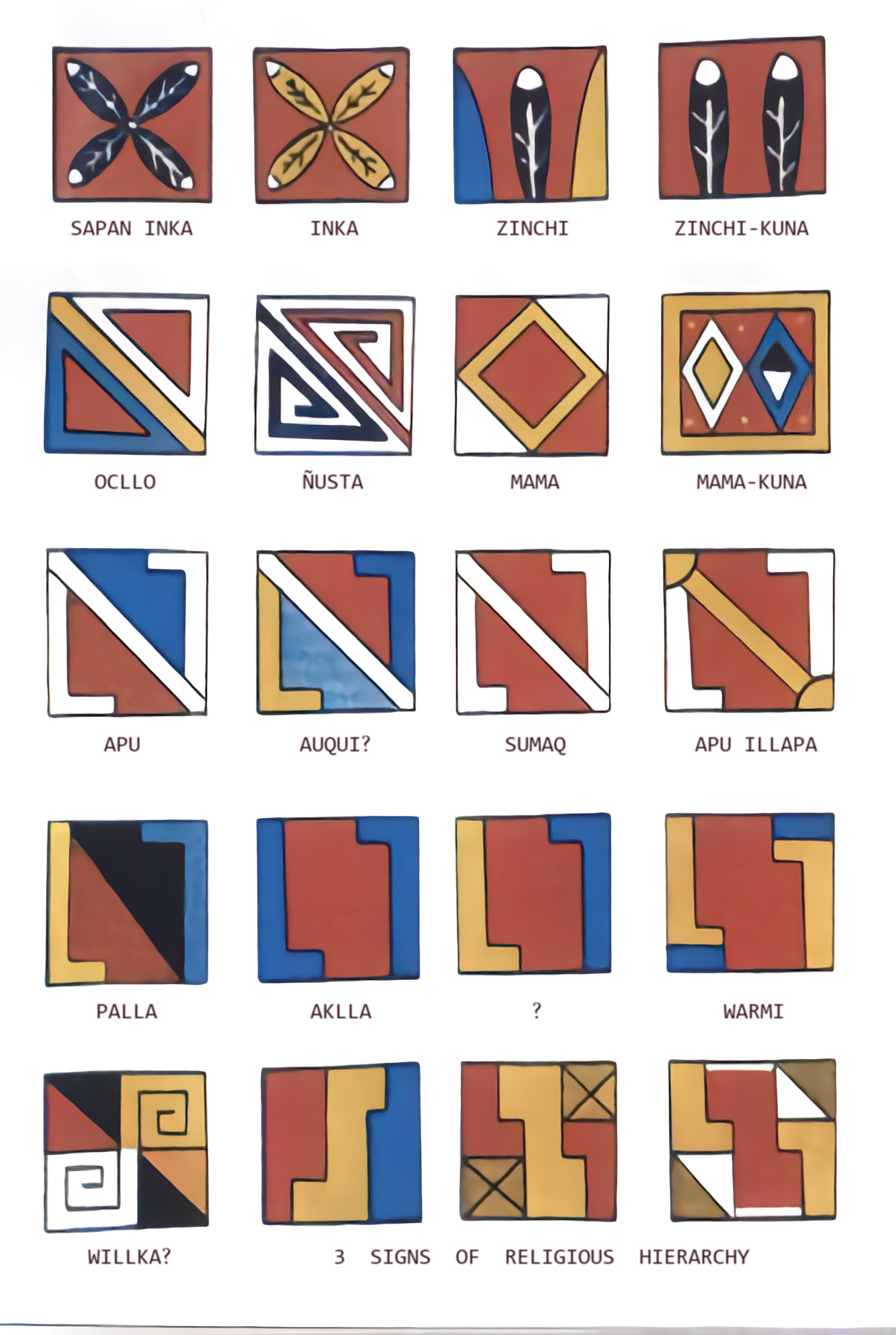 Incaic Quellca drawings of the Tokapu type. Source: redrawn from the original research of Victoria de la Jara, 1972. Motifs like these have been used from pre-Inca times to the present day. Although there is no consensus as to whether or not they represented full writing during pre-Columbian times. There is no doubt that many - if not all - once had a meaning, some of them remain. For example, the design representing a star, frequent in Pre-Columbian Inca textiles, is still present in many parts of the Andes, in most instances unchanged or barely altered but always representing the same thing, a star, its influence reaches as far away as Mapuche lands who very frequently use said design in their present-day textiles.